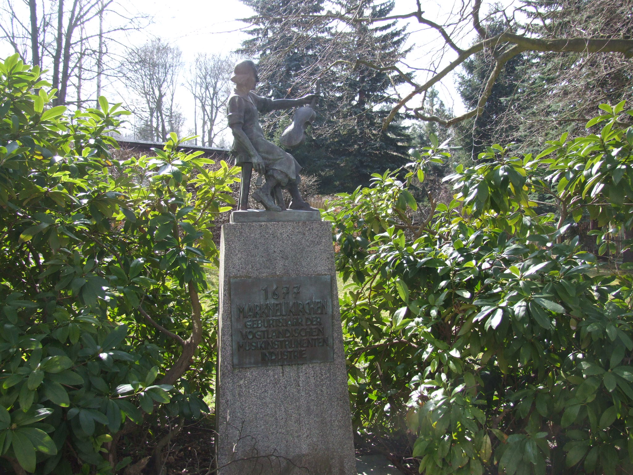 Markneukirchen, in April 2008.Music instrument museum . Sculpture of a Instrument Maker, celebrating the foundation of the industry in 1677.